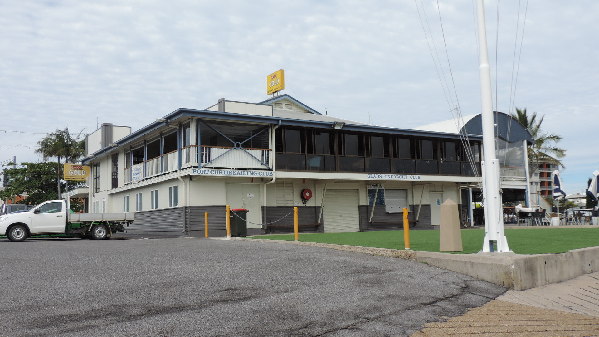 Port Curtis Sailing Club (view from water), Gladstone, 2014